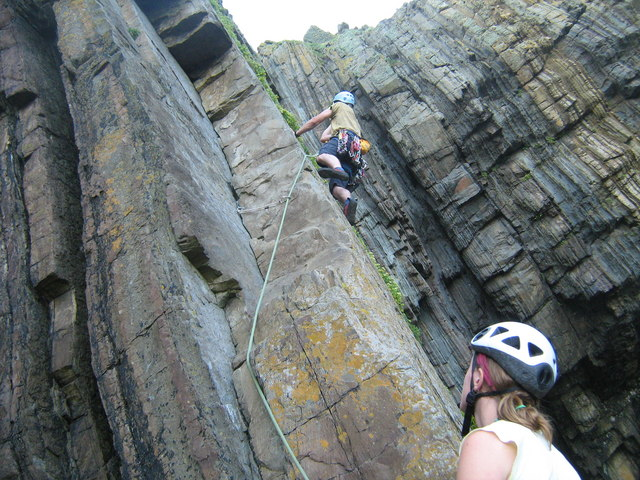 Baggy Sandstone, Baggy Point Taken from below Promontory Slab, showing the many and varied layers of Baggy Sandstone formed under a range of climatic conditions around 400 million years ago. The climbers are on one of Baggy's well known slab climbs, Shangri-La.